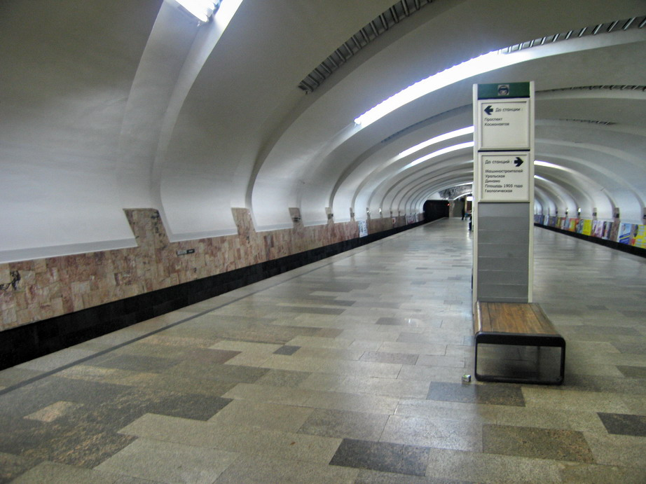 Uralmash subway station, Yekaterinburg (Sverdlovsk Oblast, Russia).